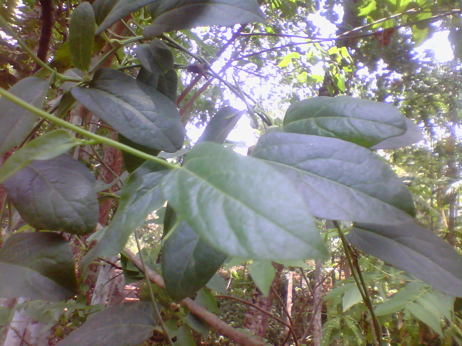 Kudukkamooli (Malayalam) is a medicinal plant used for treatment of fever and cough